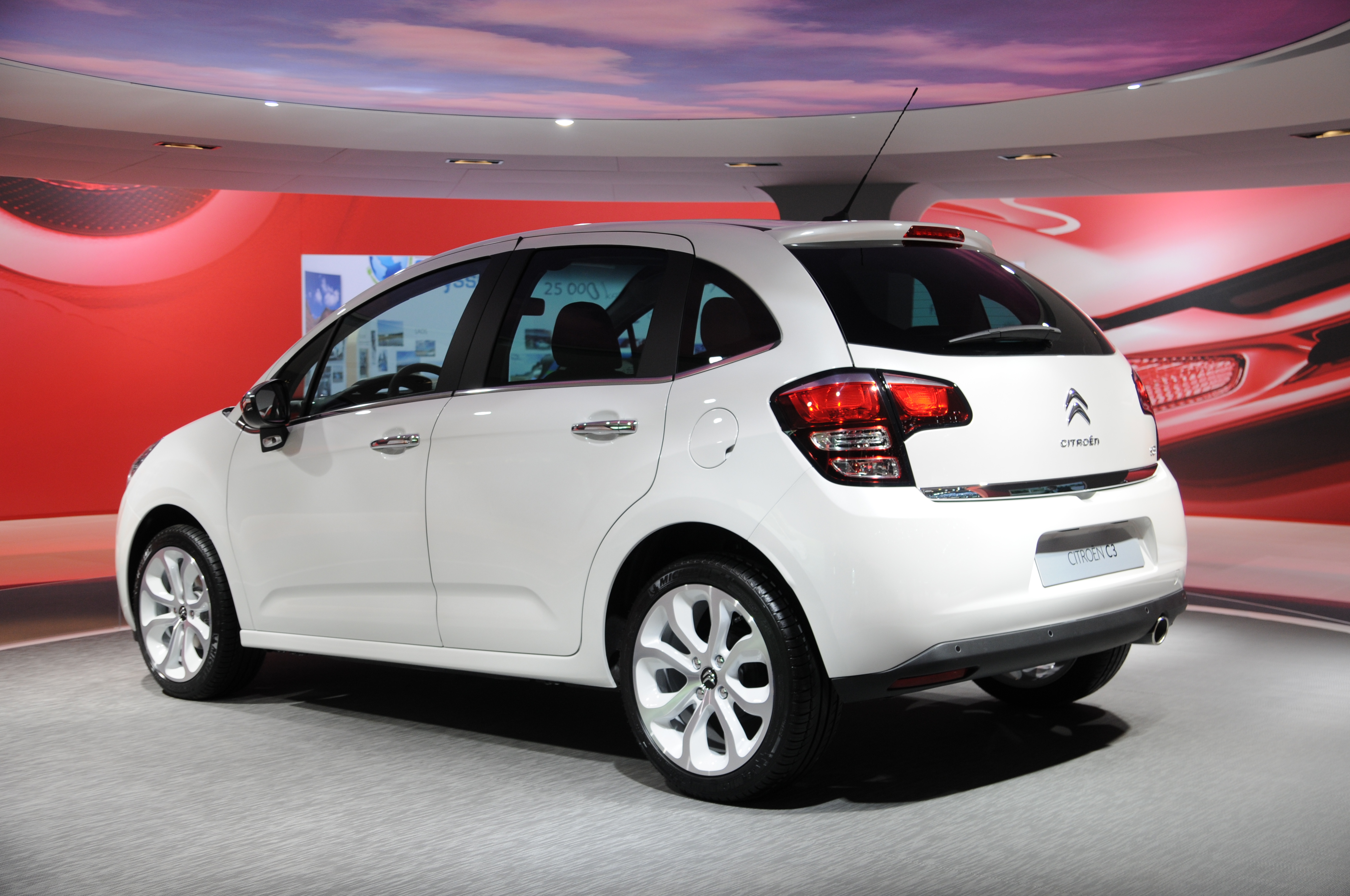 Geneva Motor Show 2013 (photos taken on the first press day)